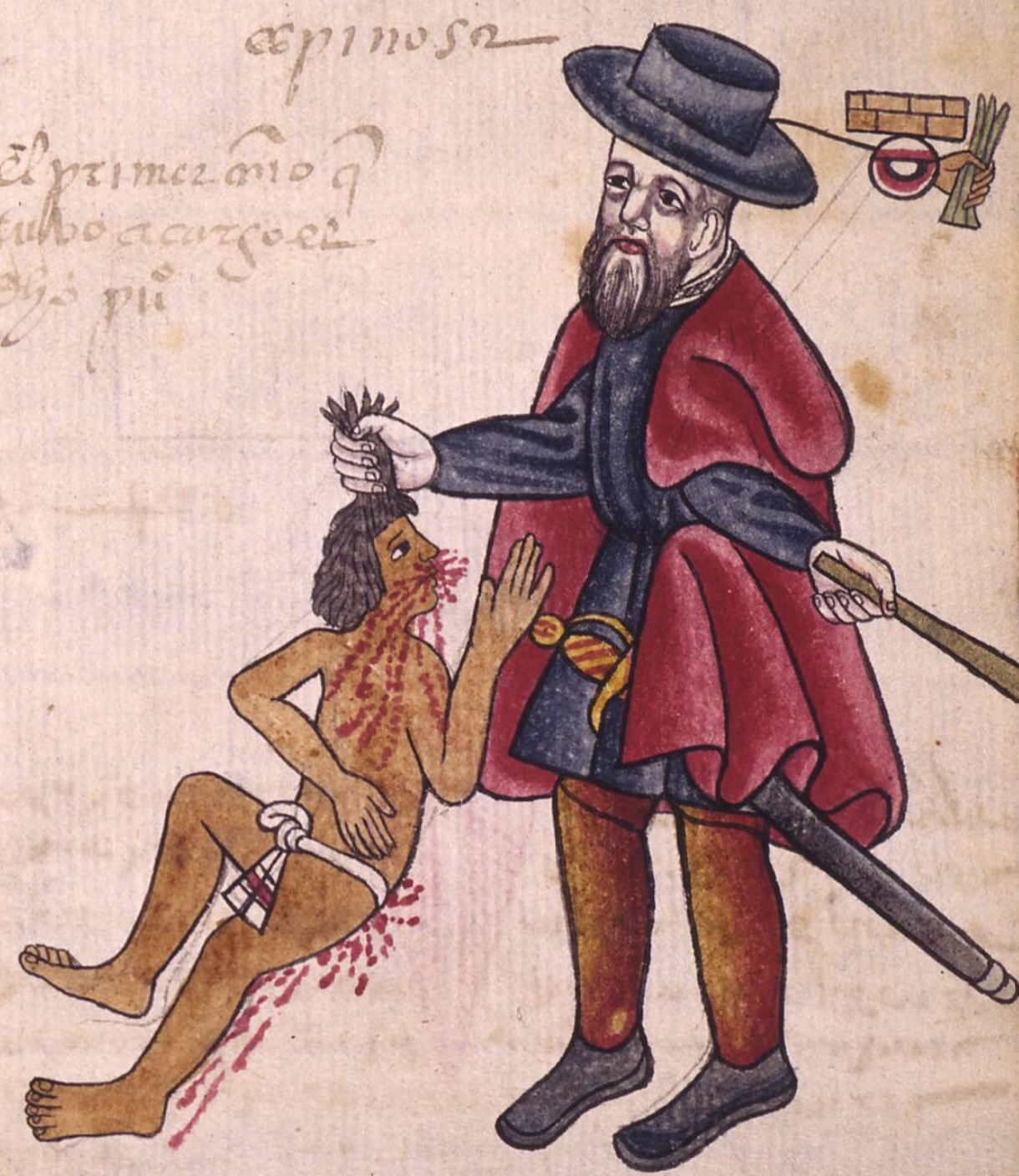 Part of the Codex Kingsborough, an indigenous Mexican complaint against an abusive encomendero.